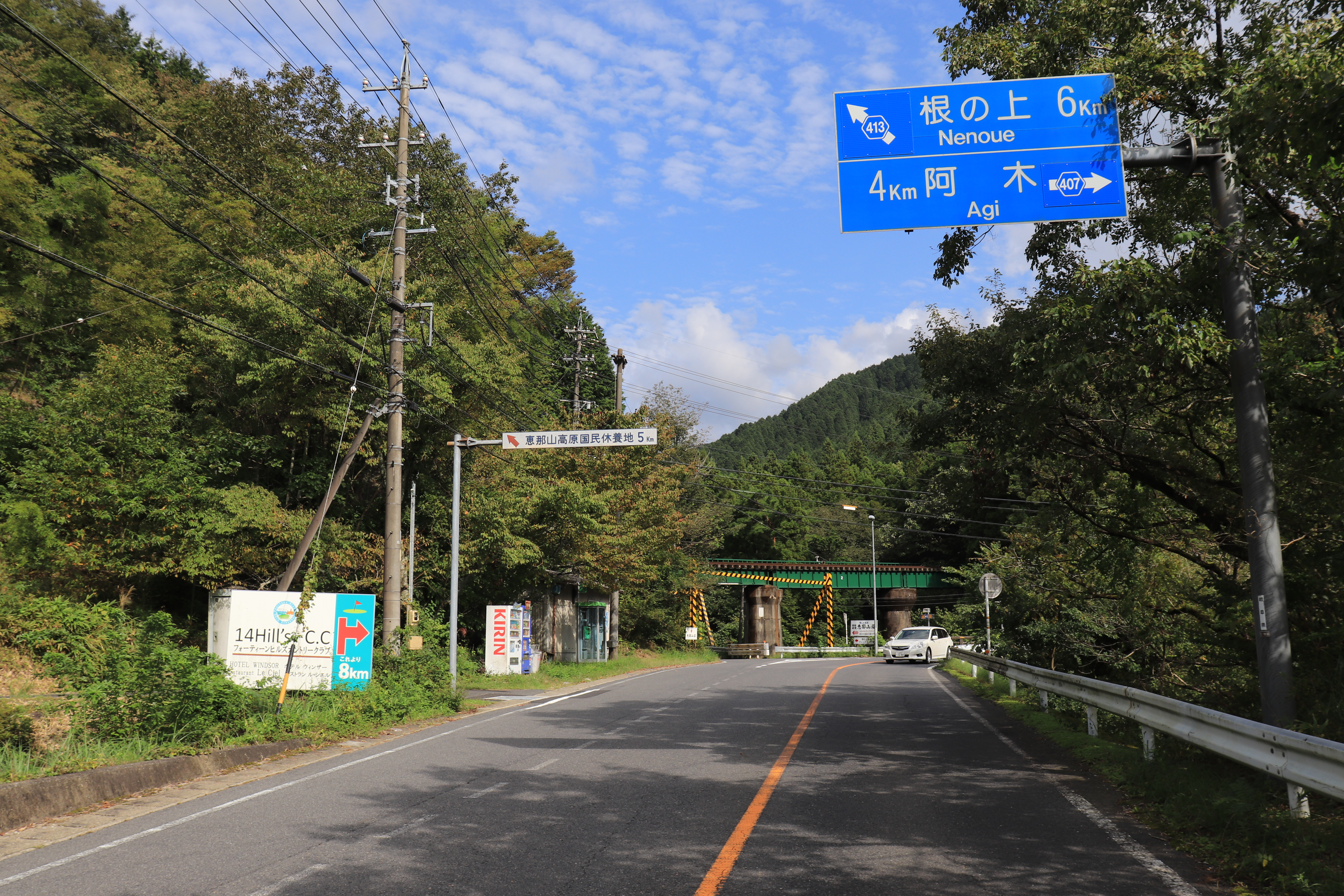 Gifu Prefectural Road Route 407 (Agi-Ōi Line) and Gifu Prefectural Road Route 413 (Higashino-Nakatsugawa Line) in Higashino, Ena, Gifu Prefecture, Japan.